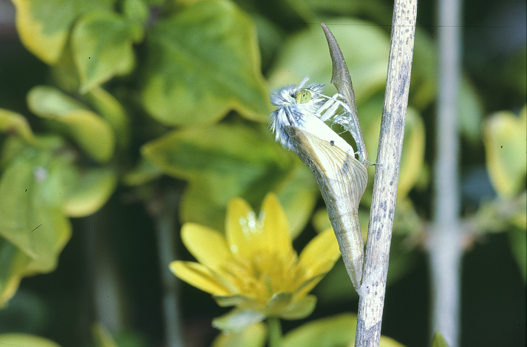 Anthocharis cardamines